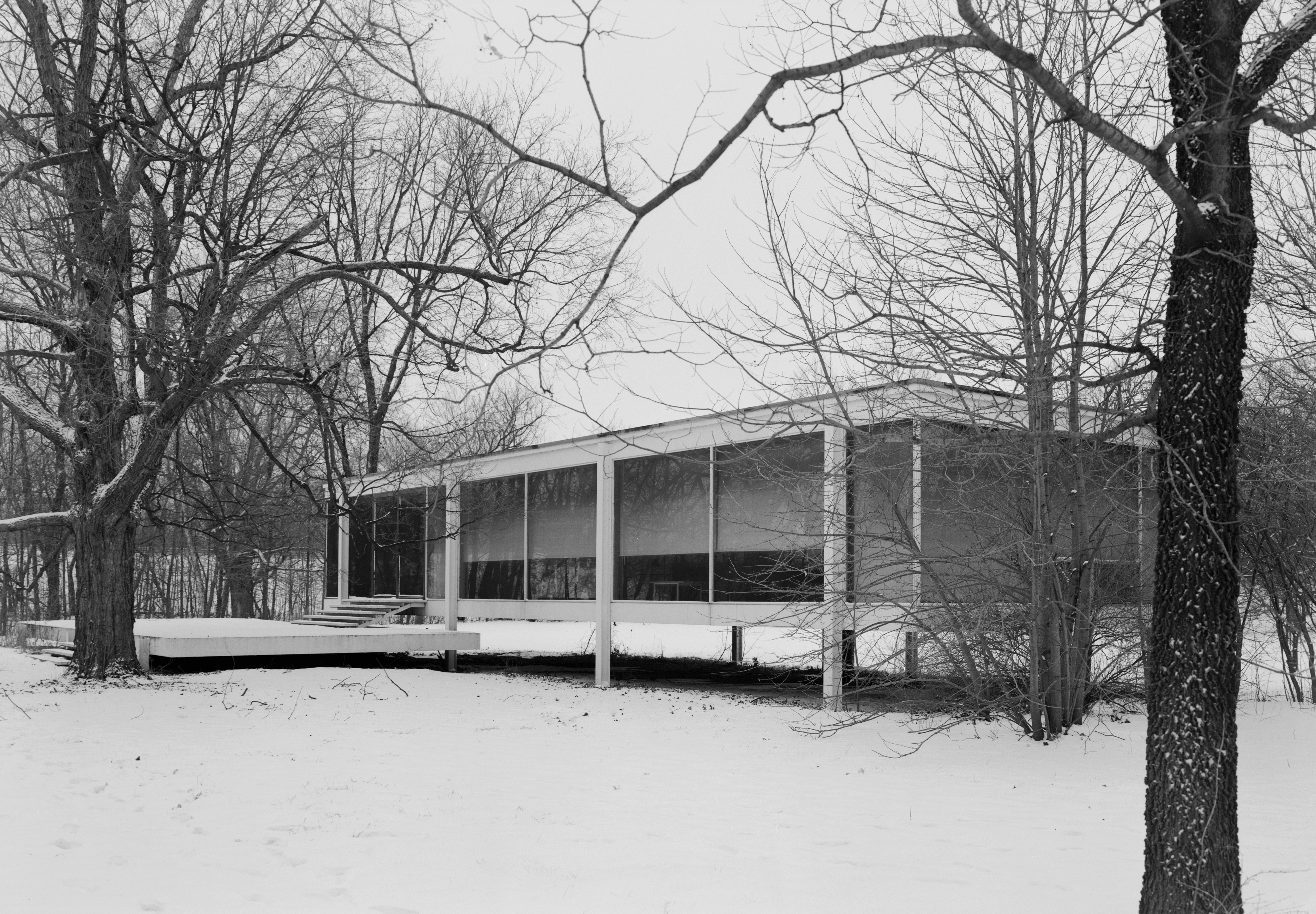 Edith Farnsworth House, Fox River & Milbrook Roads, Plano vicinity, Kendall County, Illinois - general view from the southeast, showing south elevation. Designed by Ludwig Mies van der Rohe